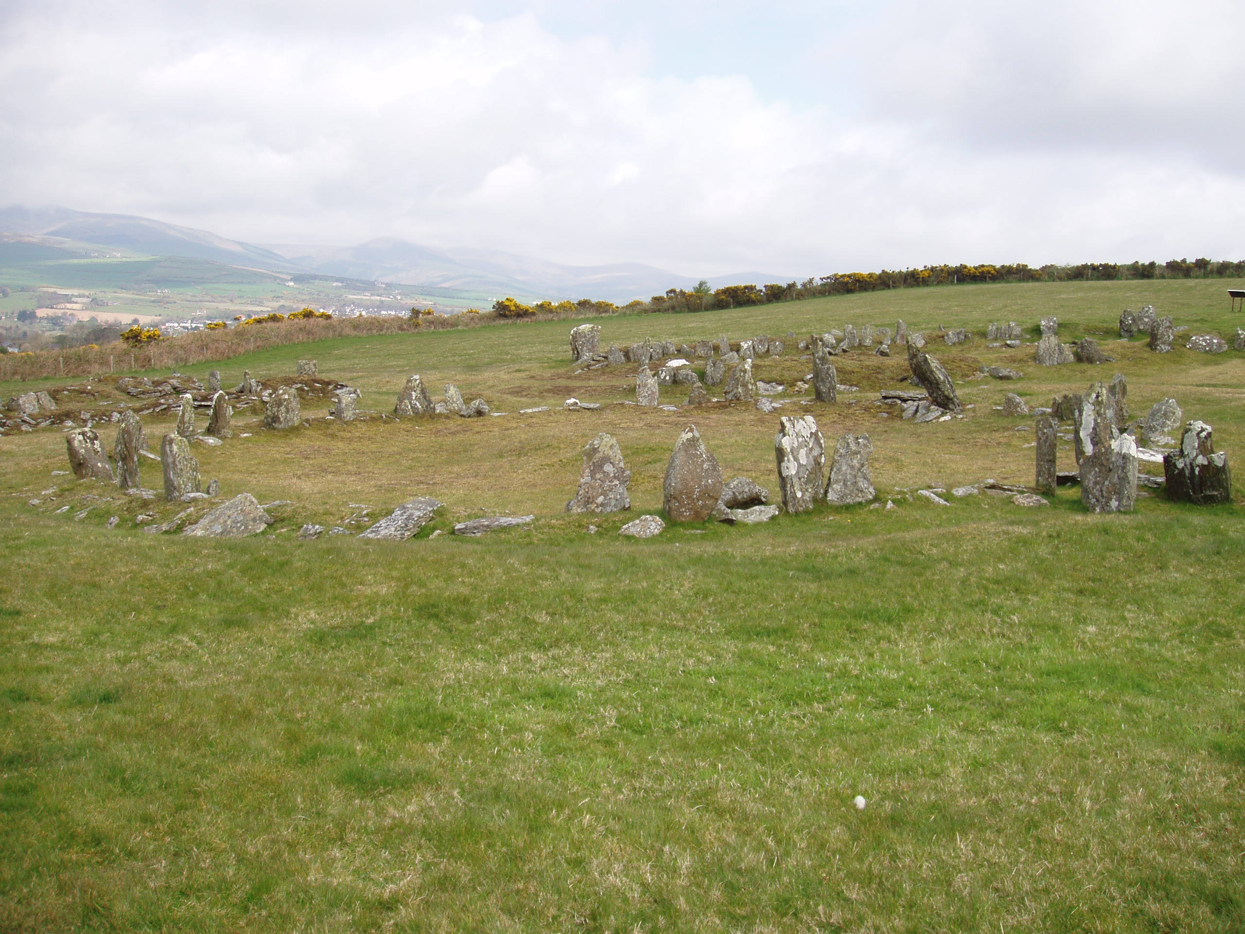 Part of the Manx Heritage Trail, The Braaid is the site of an ancient Celtic-Norse era community. Remnants of a roundhouse in the foreground, c. 650 A.D. and remnants of two longhouses in the background, c. 950 A.D. can be seen here situated on the rolling hills of Marown in central Isle of Man.